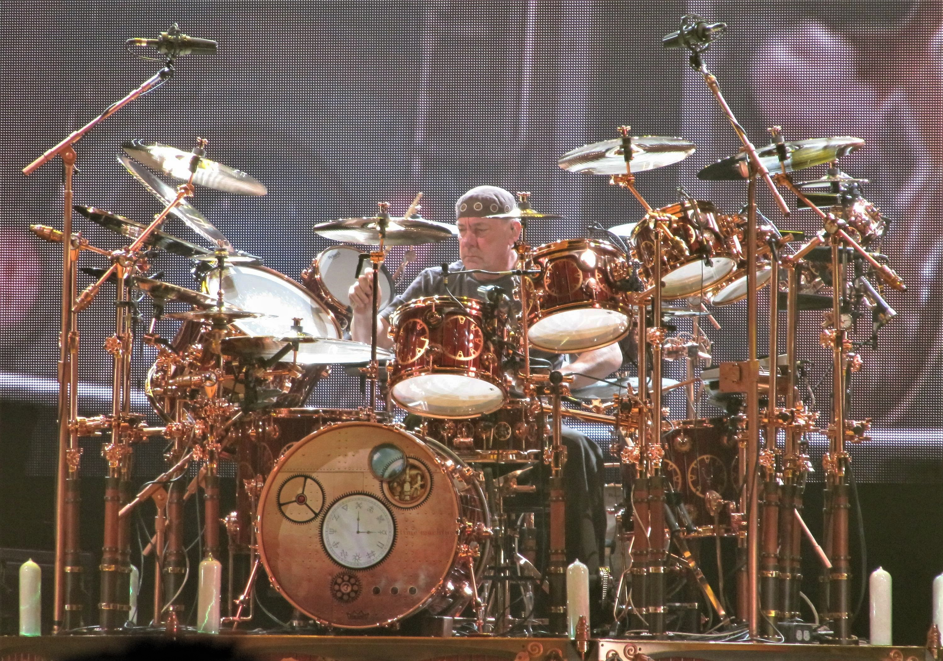 Neil Peart playing at the Air Canada Centre in 2010.